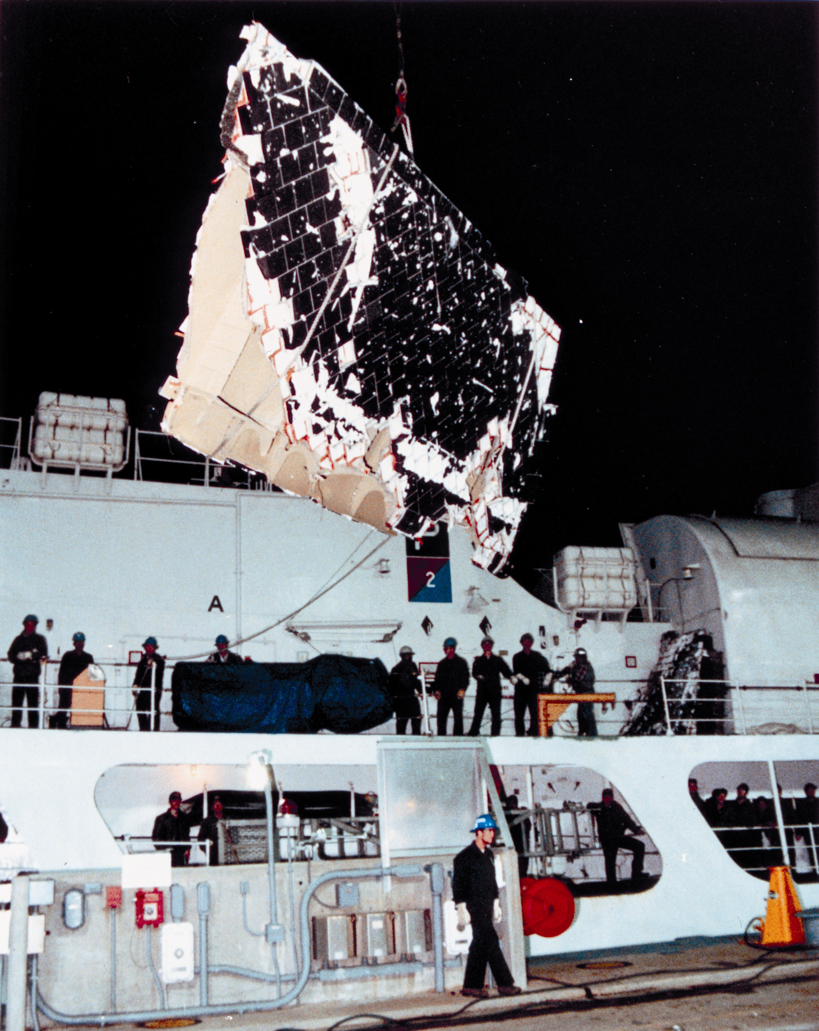 On January 28, 1986, the Space Shuttle Challenger and her seven-member crew were lost when a ruptured O-ring in the right Solid Rocket Booster caused an explosion soon after launch. With the help of the U.S. Coast Guard and the U.S. Navy, search and recovery teams began retrieving pieces of the Shuttle from the Atlantic Ocean soon after the accident. Vessels brought the debris to the Trident Basin at Cape Canaveral Air Force Station, where they waited to be shipped to Kennedy Space Center for investigation. The USCG Cutter Dallas transported this fragment of exterior tiling.